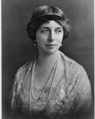 Photographic portrait of Katharine Stewart-Murray, Duchess of Atholl